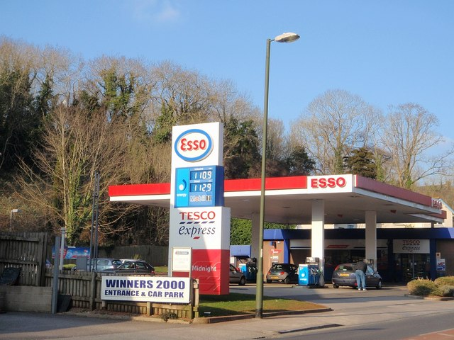 Service station, Teignmouth Road, Torquay An Esso petrol station with attached Tesco Express, at the northern end of the limestone gorge of Daison. "Winners 2000" is a gym.